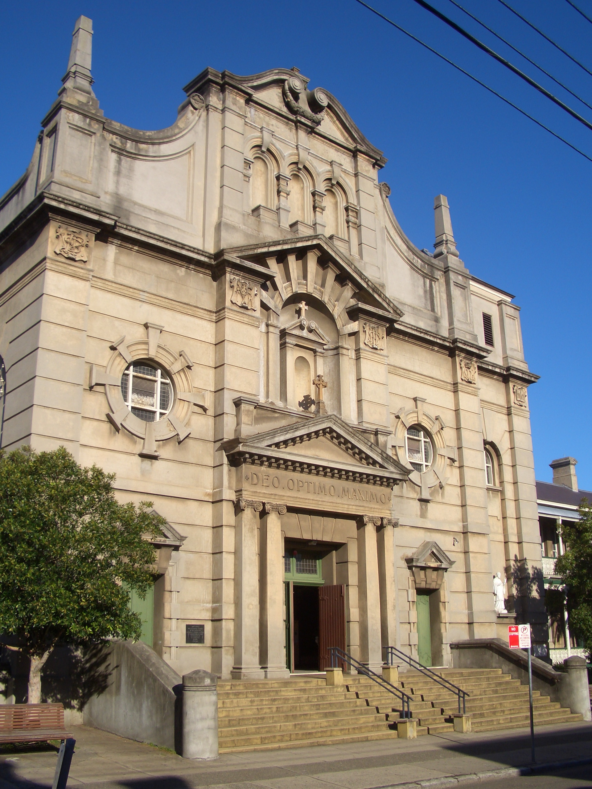 Ashfield, St Vincents Catholic Church